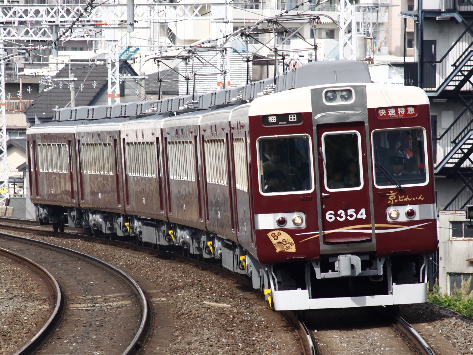 Hankyu 6300 Nishi-Kyogoku Station